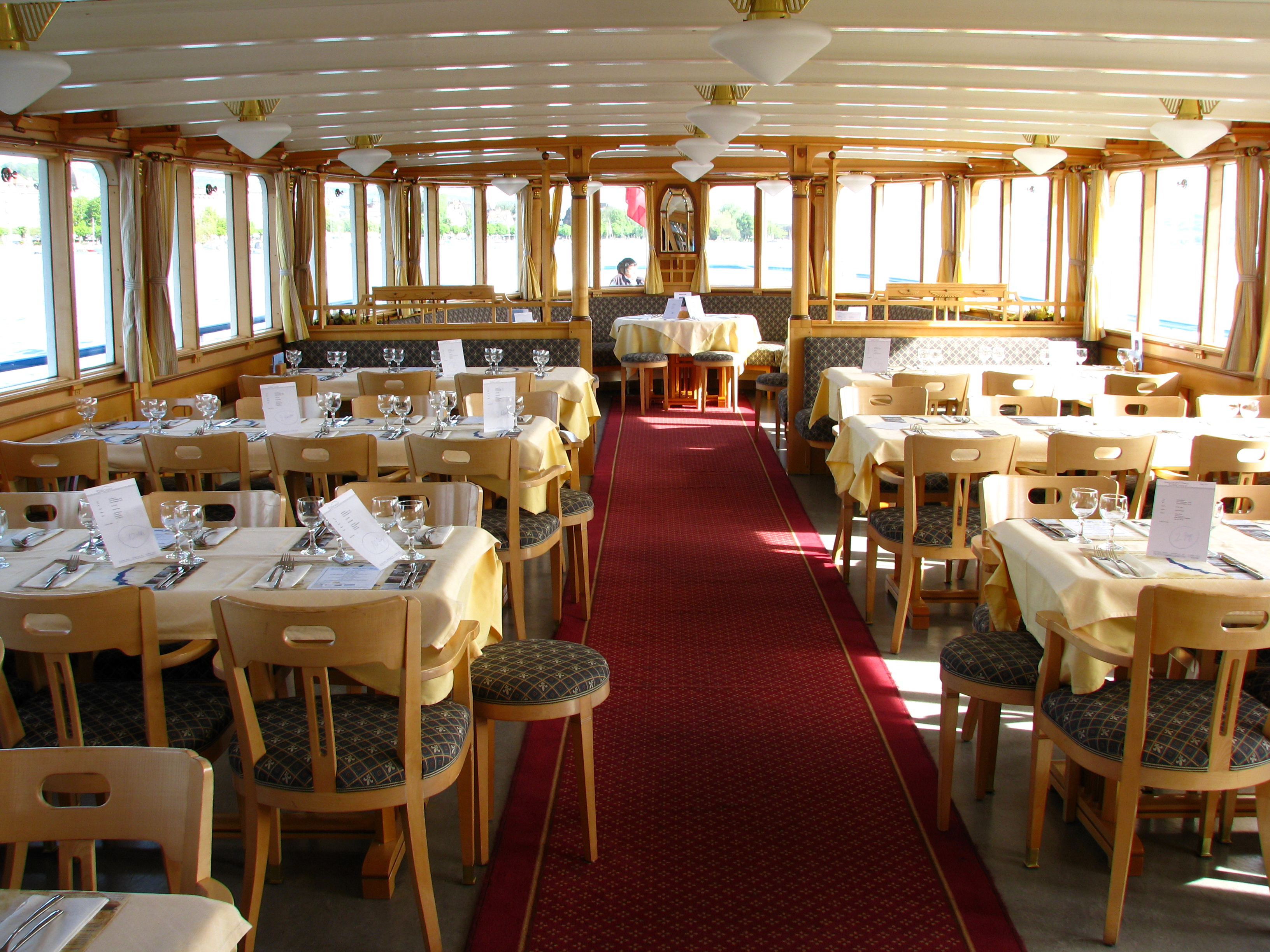 Zürichsee-Schiffahrtsgesellschaft (ZSG) : Paddle steamship «Stadt Zürich» (Art Nouveau salon) at Zürich-Bürkliplatz.